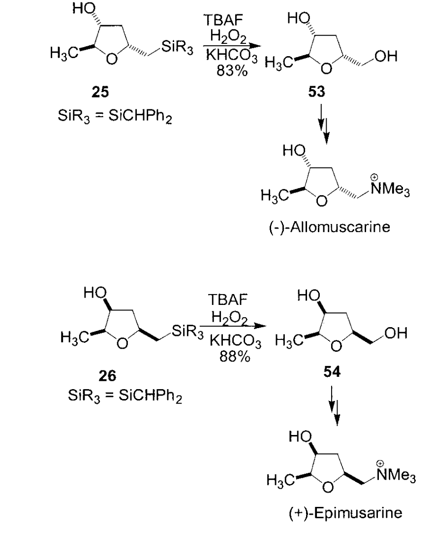 Enantiomers of muscarine